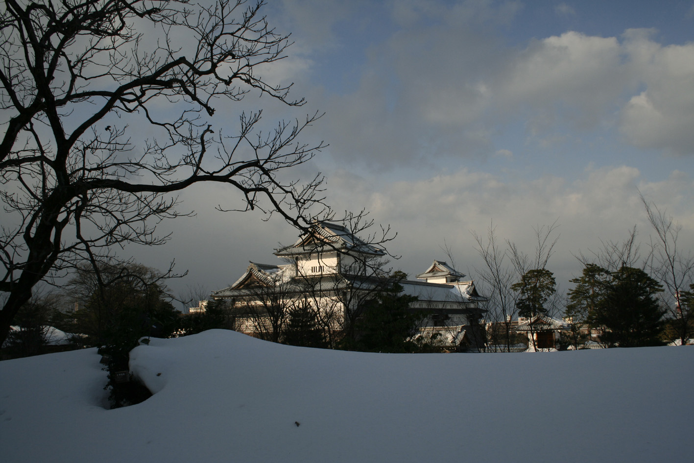 Kanazawa Castle, photo taken by Georgi Georgiev